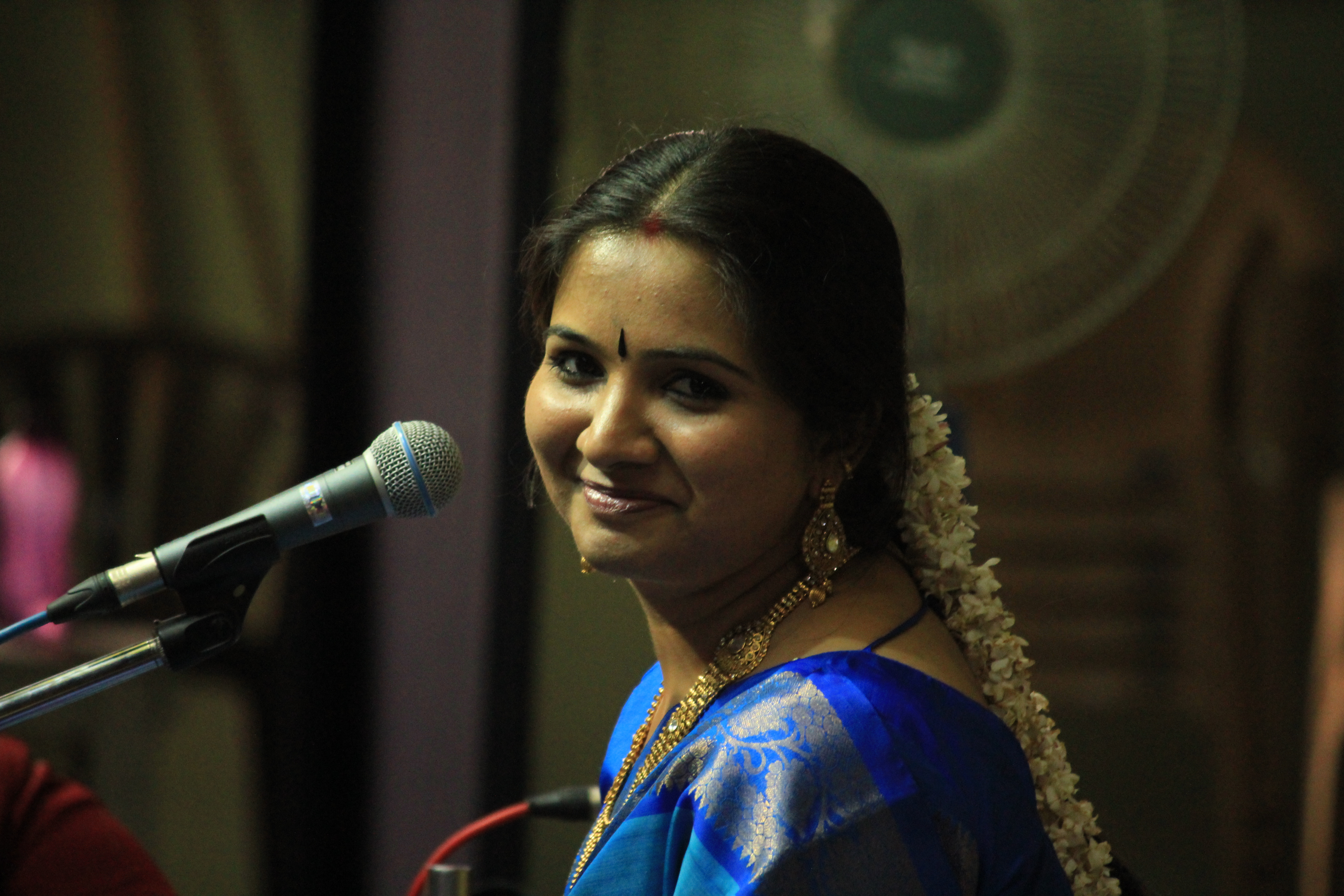 Mahathi performing at the December Music Season, MFAC, Chennai 2012.